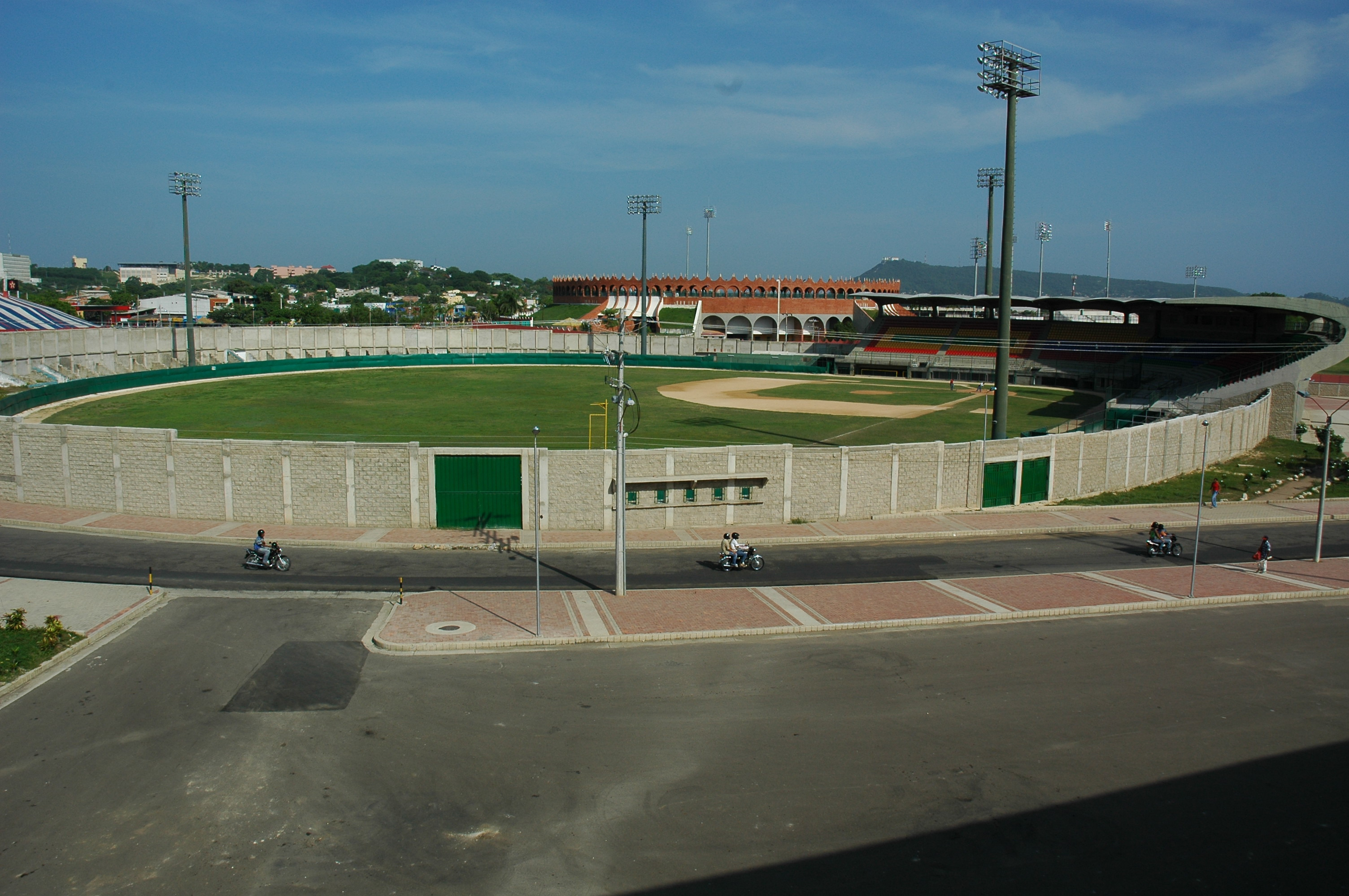 11 de Noviembre Stadium, Cartagena, Colombia